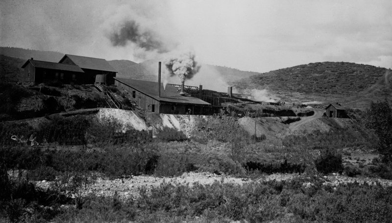 Big Bug Smelter, Boggs Smelter and Big Bug — near Prescott, Arizona, circa 1900. Image courtesy of Sharlot Hall Museum (Yavapai County, Arizona).